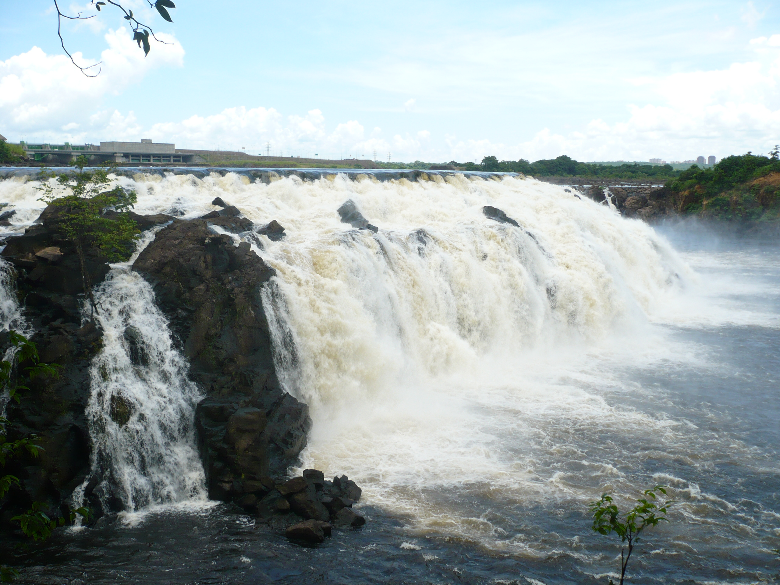 La Llovizna Park